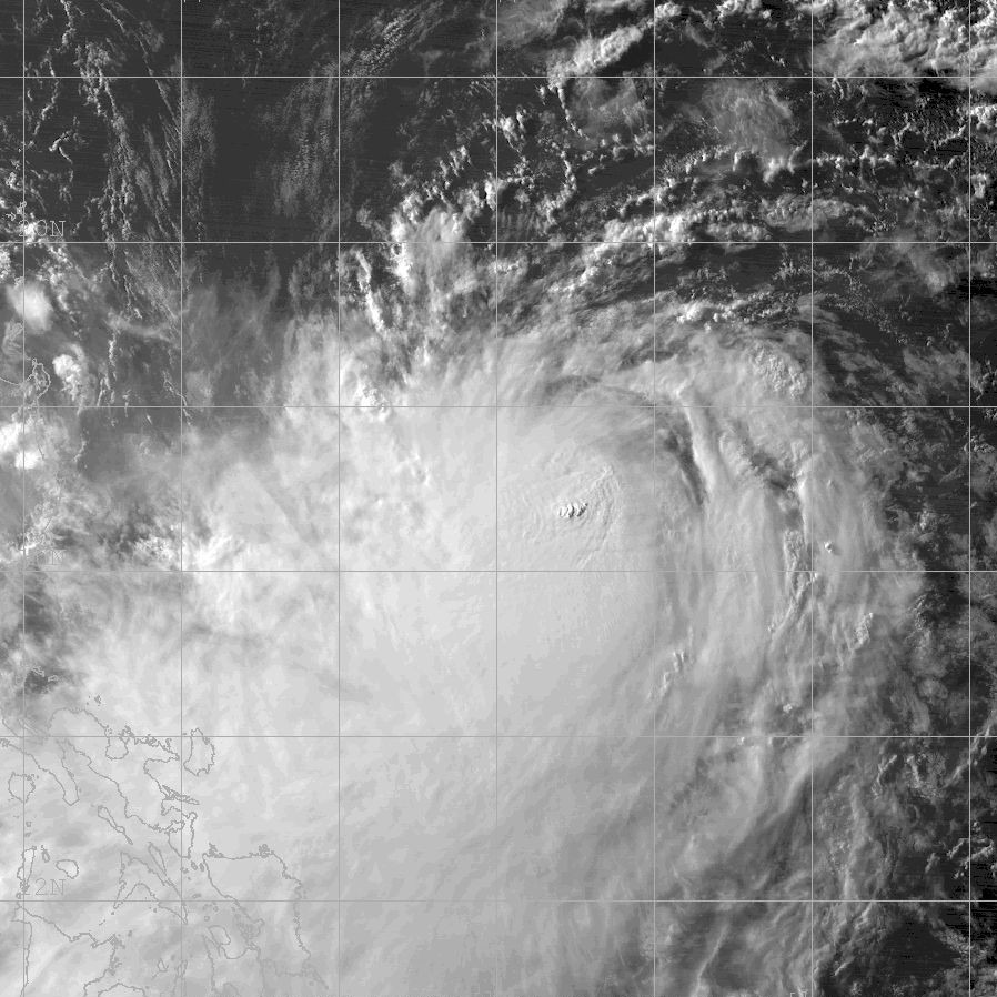 Typhoon Kaemi (2006-06W) near peak intensity. Maximum sustained winds were 75 knots (10-minute average) and the minimum pressure was 955 mb. This image was captured by the GMS-6 satellite on July 22 at 0830 UTC.